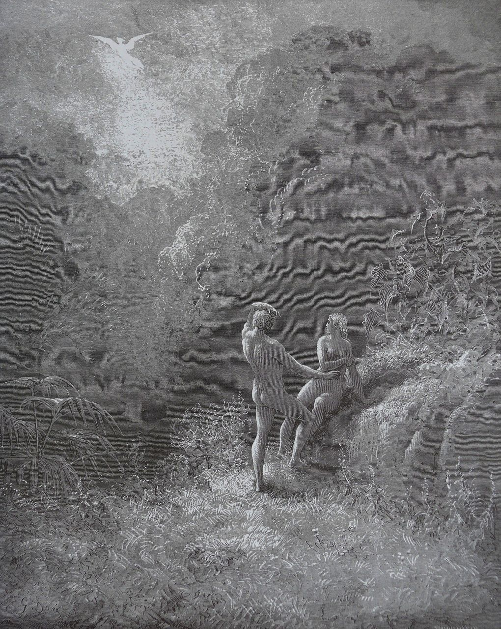 Illustration for John Milton’s “Paradise Lost“ by Gustave Doré